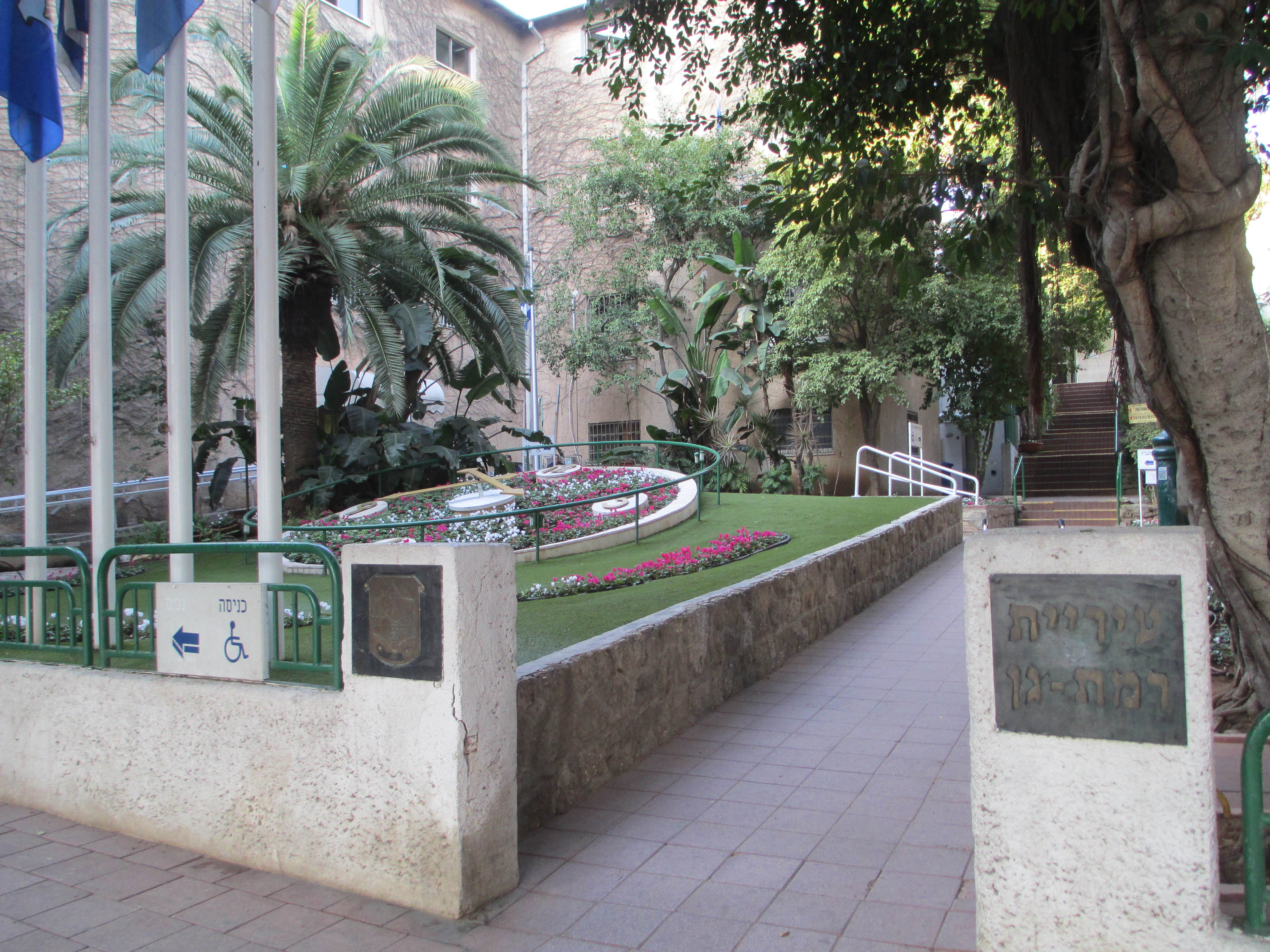 Ramat Gan Municipality